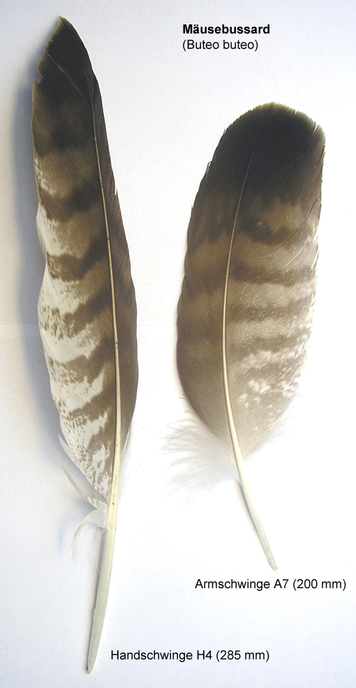 Primary in comparison with a secondary considering the "Common Buzzard" (Buteo buteo) as example